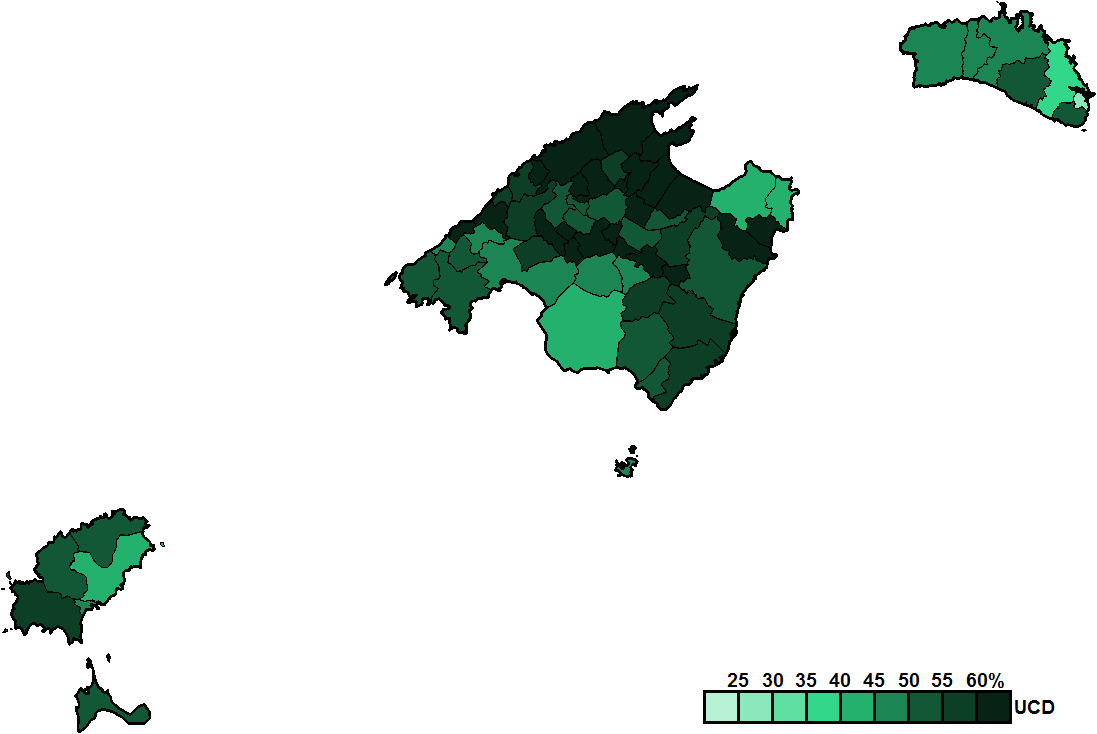 Balearic Islands Spanish Congress District 1977 election municipal vote share